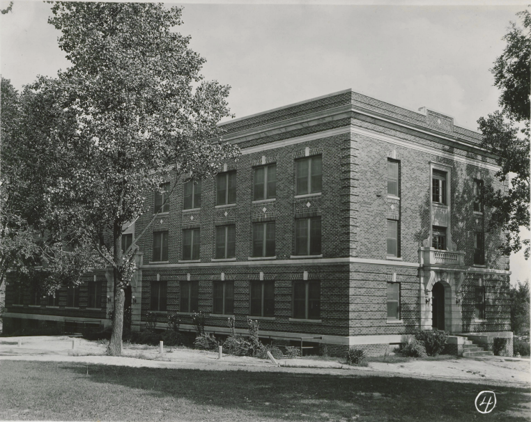 Morrison Hall Dormitory on the Campus of the Negro Agricultural and Technical College of North Carolina, now North Carolina Agricultural and Technical State University; 1926